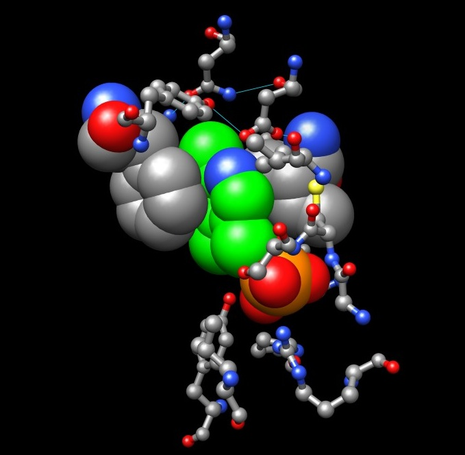 Nonpolar side chains holding PLP in place in tyrosine aminotransferase.